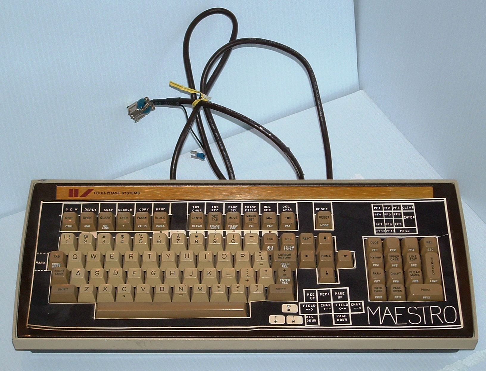 Softlab Maestro Keyboard 1978-79 credit: Museum of Information Technology at Arlington